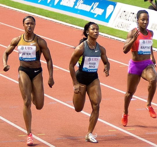 Cropped image of File:Athletissima 2012 - 100m F.jpg